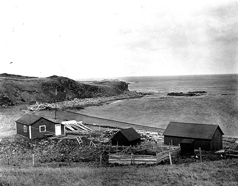 On verso of image: Home of an Alaska cod fisherman on Sannak Island In Folder 29 Subjects (LCTGM): Dwellings--Alaska--Sanak Island; Fishermen--Alaska--Sanak Island; Houses--Alaska--Sanak Island Subjects (LCSH): Cod fisheries--Alaska--Sanak Island; Sanak Island (Alaska)--Buildings, structures, etc.